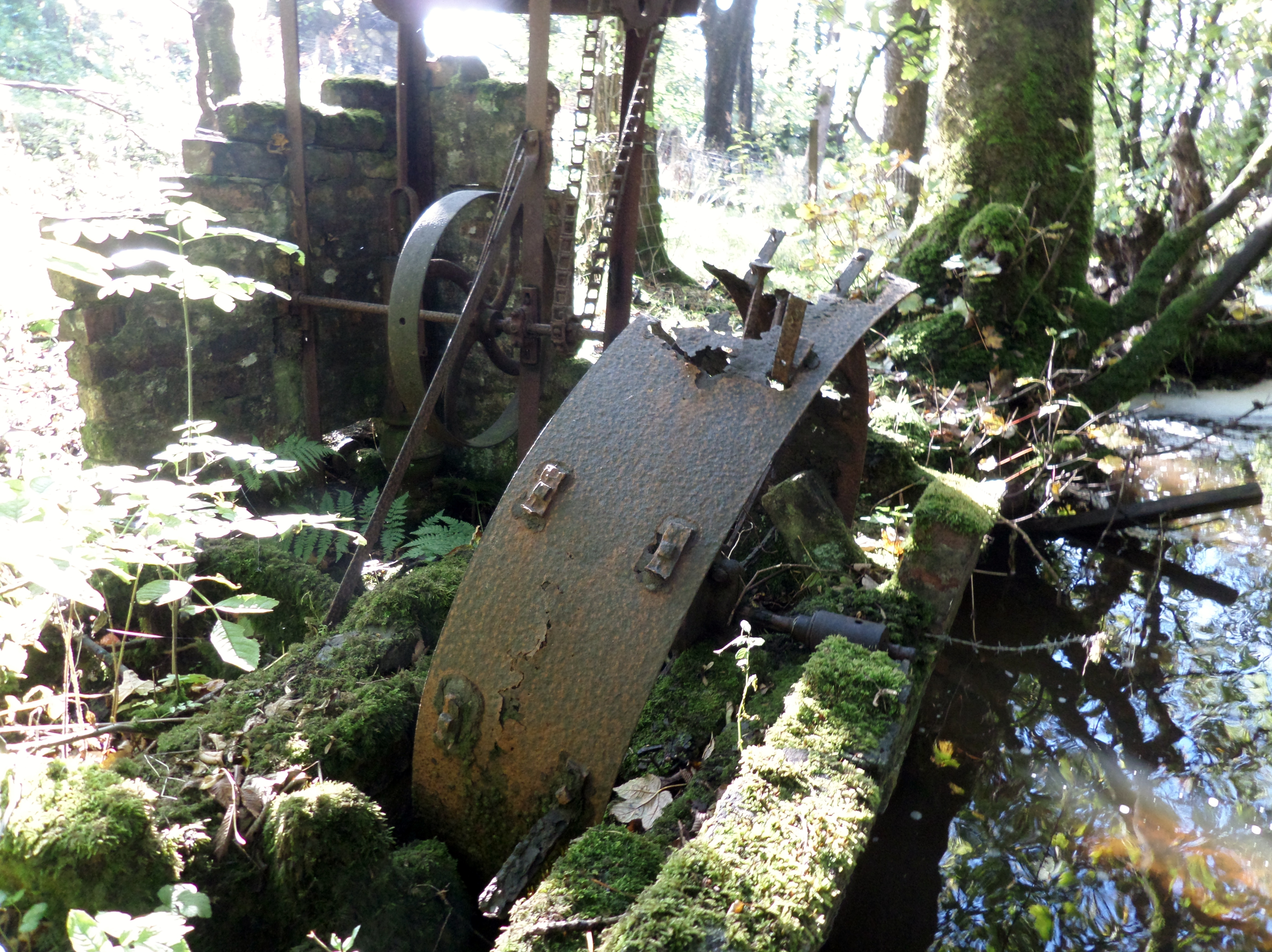 The water wheel of a water powered water pump at Hessilhead hamlet on the Dusk Water, North Ayrshire, Scotland.